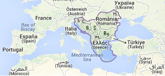 Balkan countries, derivative work since several other maps